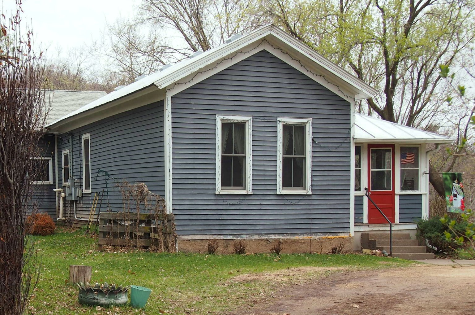 The Stillwater Pest House (a 19th-century quarantine facility, now a private residence with additions on the right and rear), 9033 Fairy Falls Rd, Stillwater Township, Minnesota, USA. Viewed from the southwest.